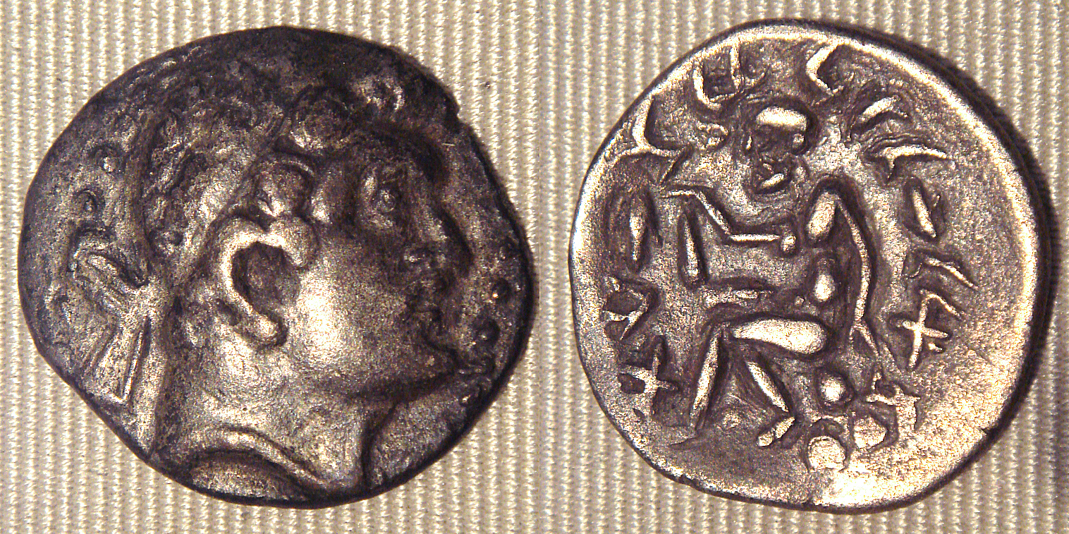 Sogdian barbaric copy of a coin of Euthydemus. Cabinet des Medailles. Personal photograph 2006.